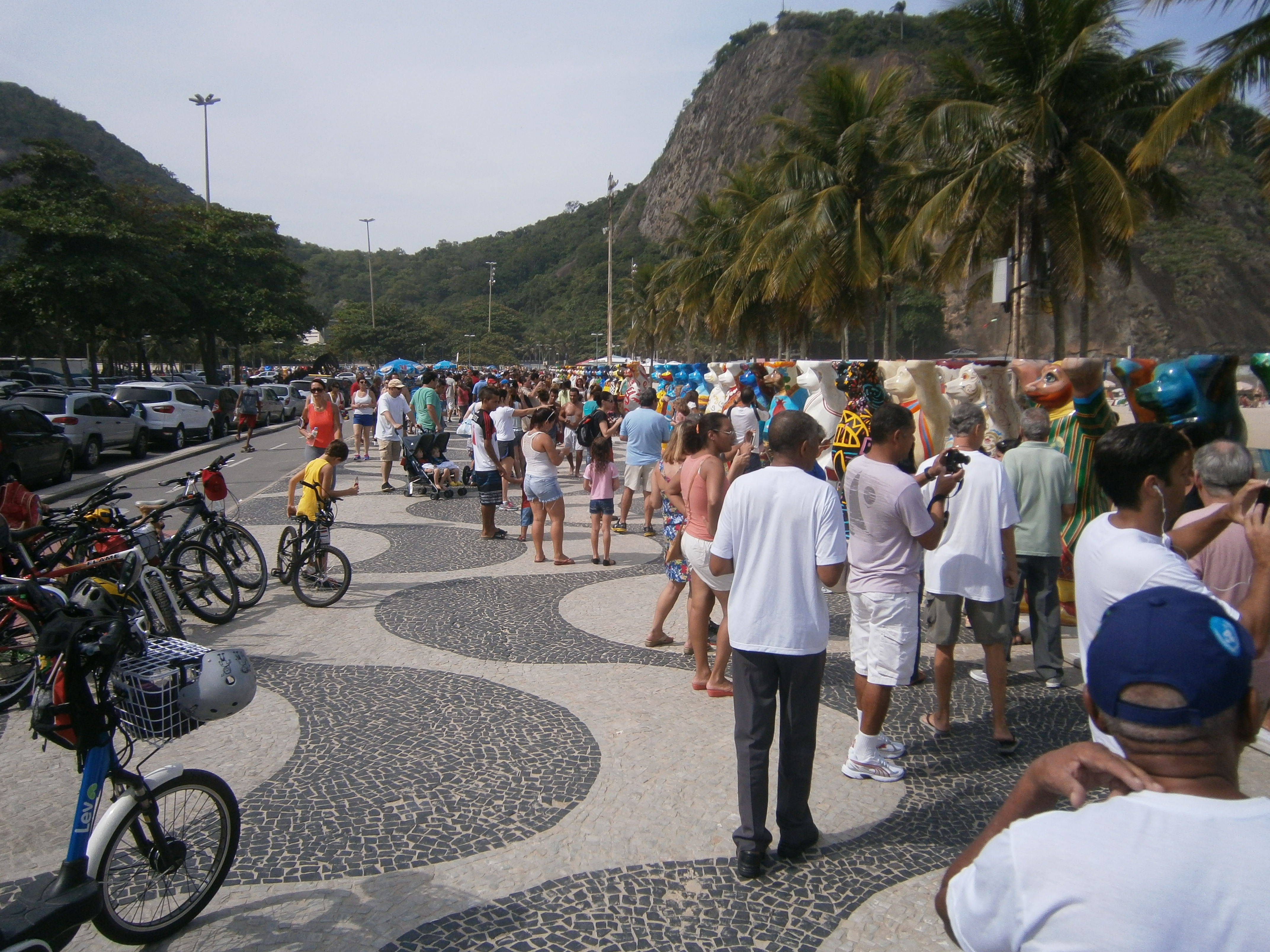 United Buddy Bears in Rio De Janeiro